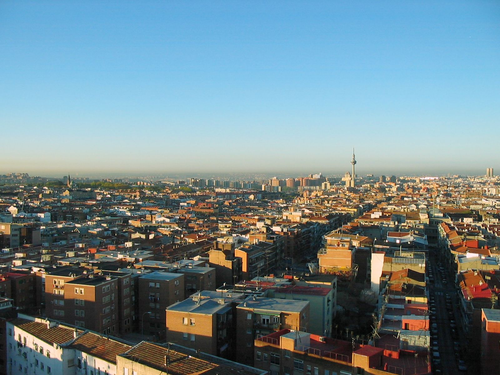 Partial view of the Ciudad Lineal district in Madrid (Spain). Image taken from a building at Calle de Vázquez de Mella (street). In the background, Torrespaña (radio and TV tower).